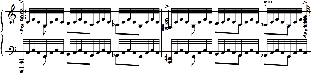 A section in Six Moments Musicaux, No. 6. The piece, composed by Sergei Rachmaninoff in 1896 was published before 1923, and thus is in the public domain.